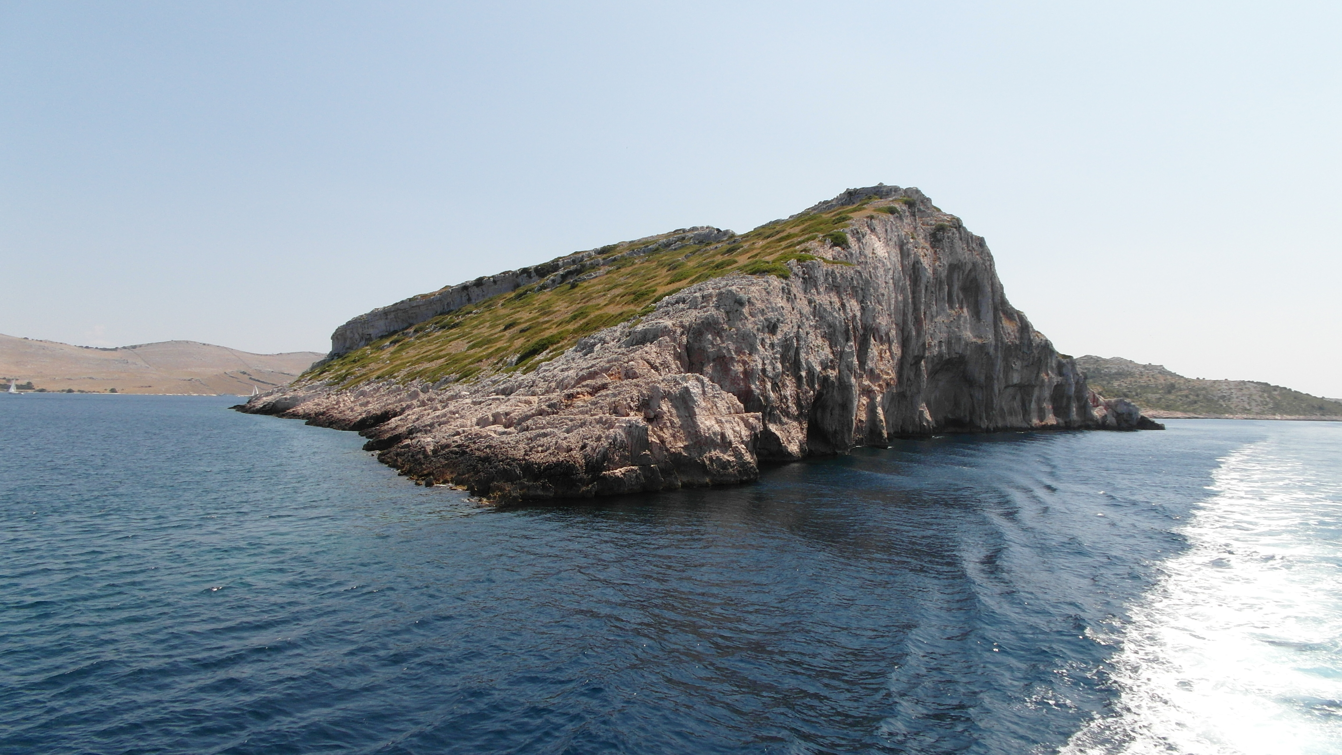 Island Obručan Veli.